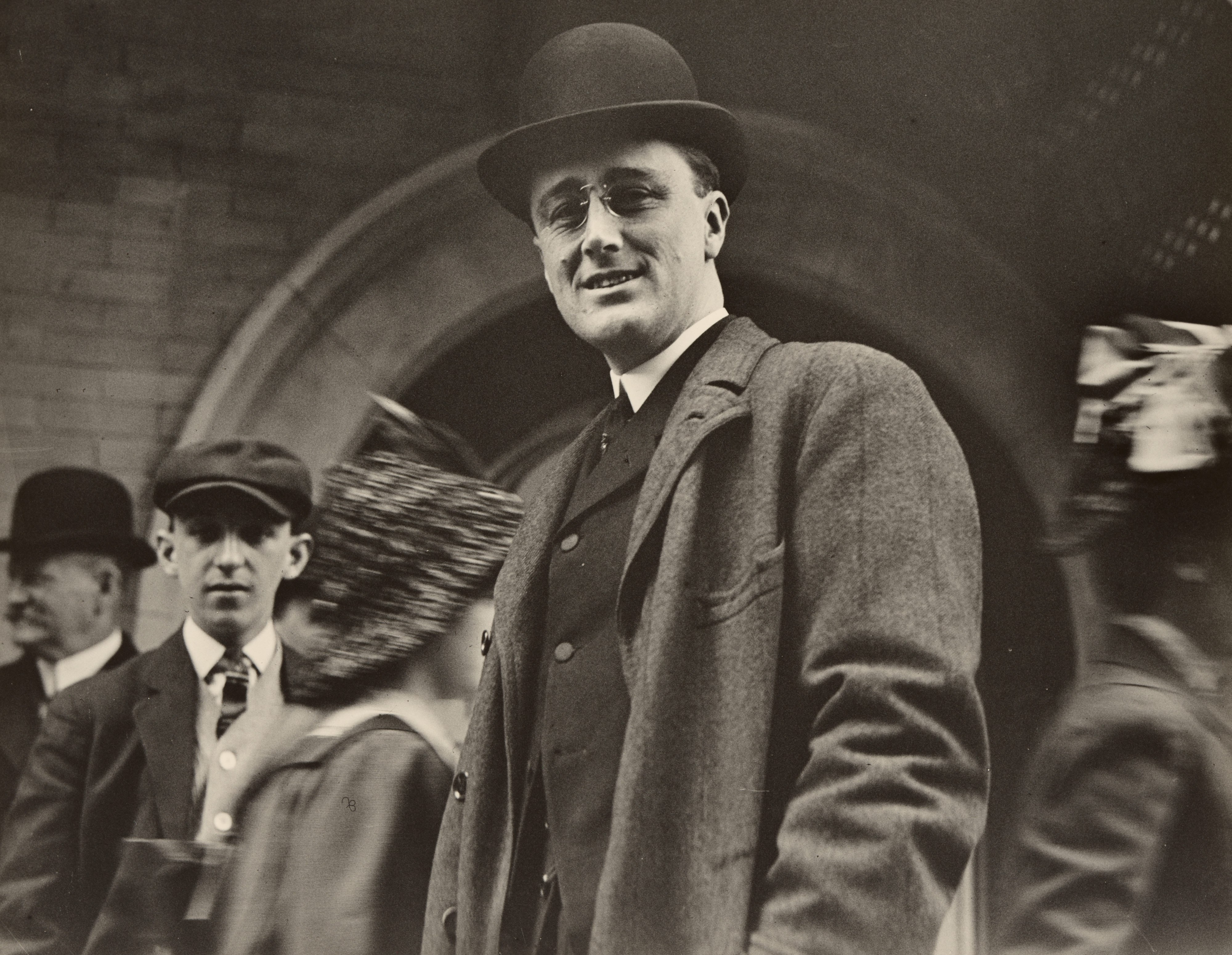 Franklin D. Roosevelt in 1912.